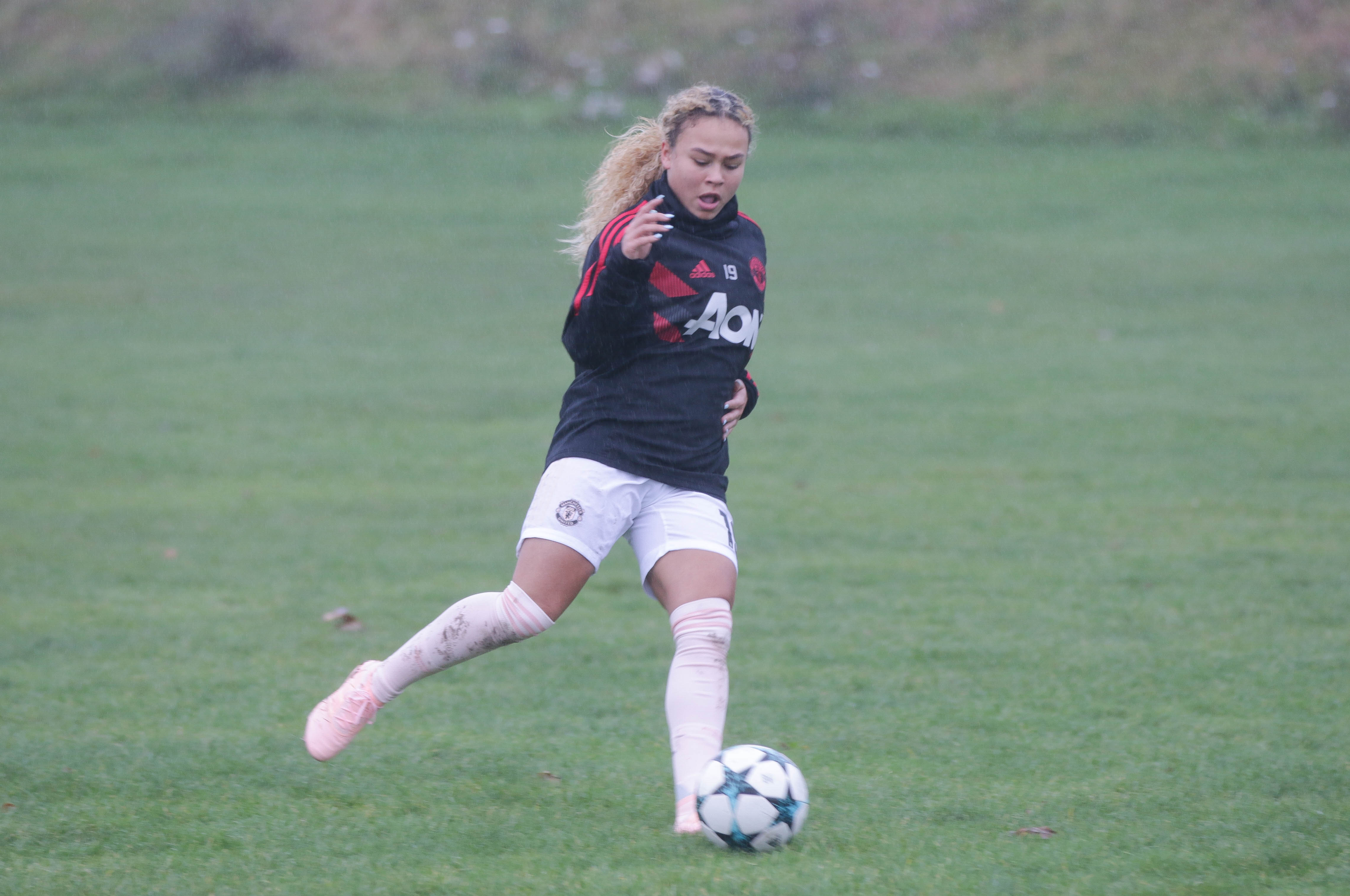 Manchester United's Ebony Salmon